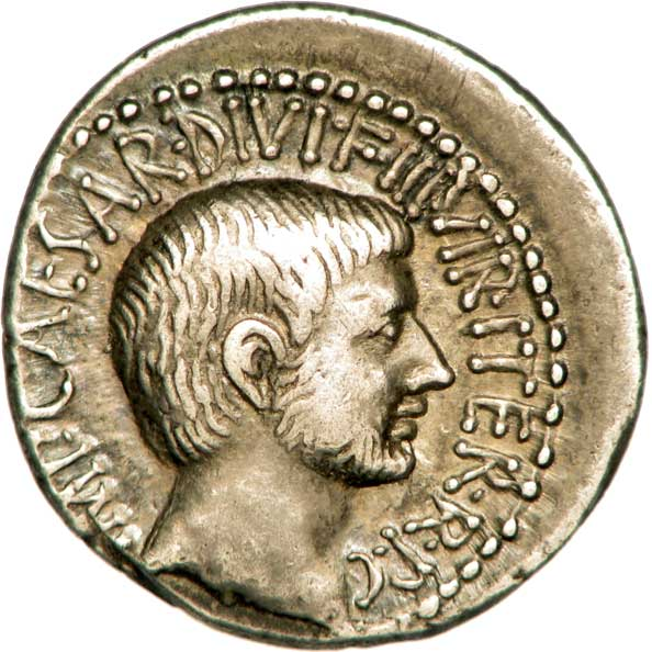 Denir à l'effigie d'Octave Date : c. 36 AC. Description: Tête nue d'Octave à droite, légèrement barbu (O°) . Traduction avers : “Imperator Cæsar Divi Filius Triumvir Iterum Rei Publicæ Constituandæ”, (Imperator Octave fils du divin Jules, triumvir pour la seconde fois pour la restauration de la République) .